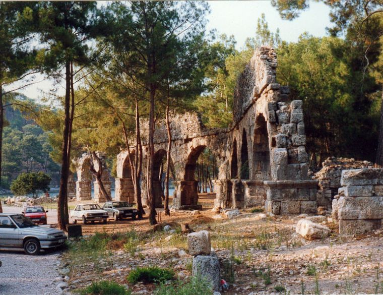 Phaselis, aqueduct near the harbour